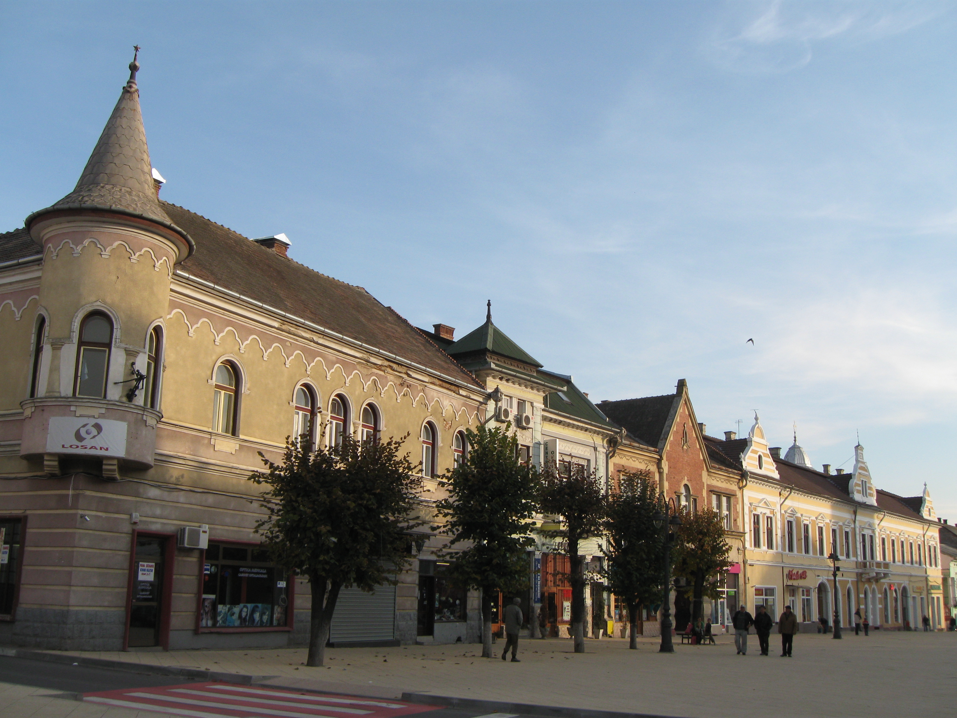 Turda - main street (Romania)